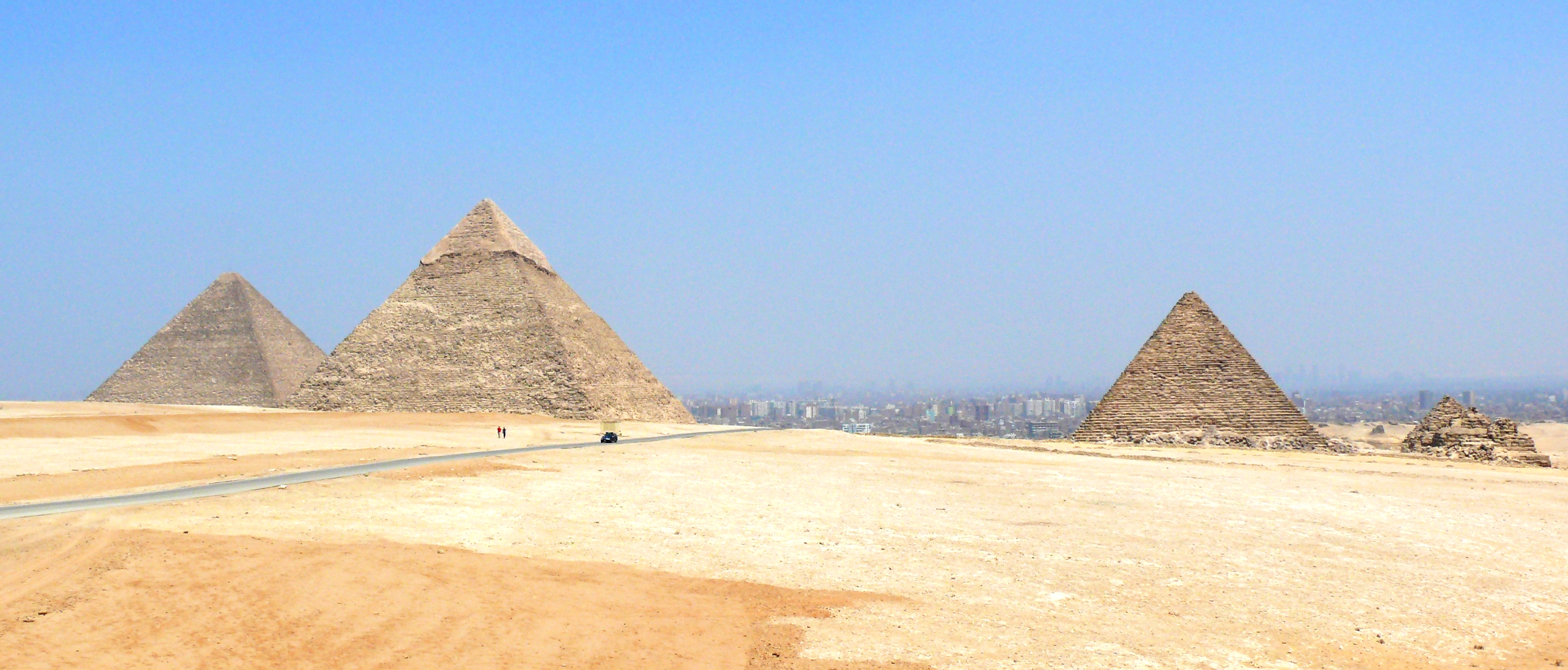 The Pyramids of Giza consist of the Great Pyramid of Giza (known as the Great Pyramid and the Pyramid of Cheops or Khufu --far left), the somewhat smaller Pyramid of Khafre (or Chephren) a few hundred meters to the south-west (middle), and the relatively modest-sized Pyramid of Menkaure (or Mykerinos) a few hundred meters further south-west (far right).